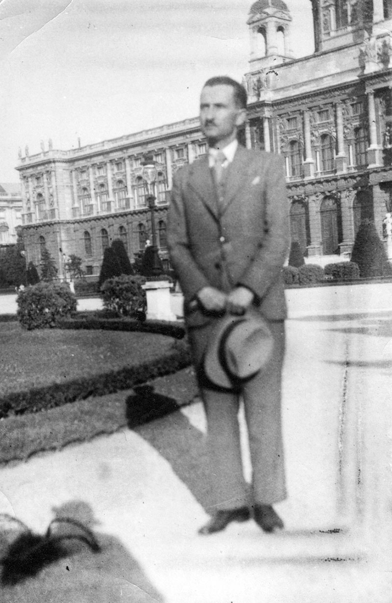 Portrait of Serbian art historian and writer Milan Kašanin in front of Kunsthistorisches Museum.